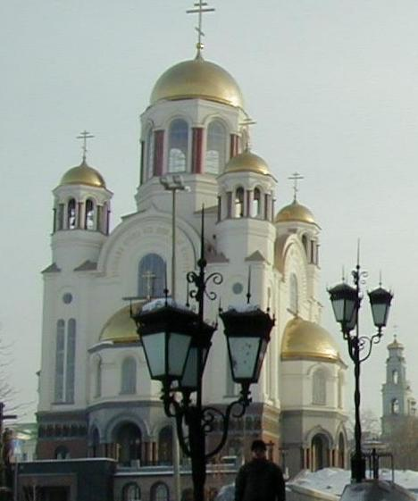 Church on the Blood, Yekaterinburg